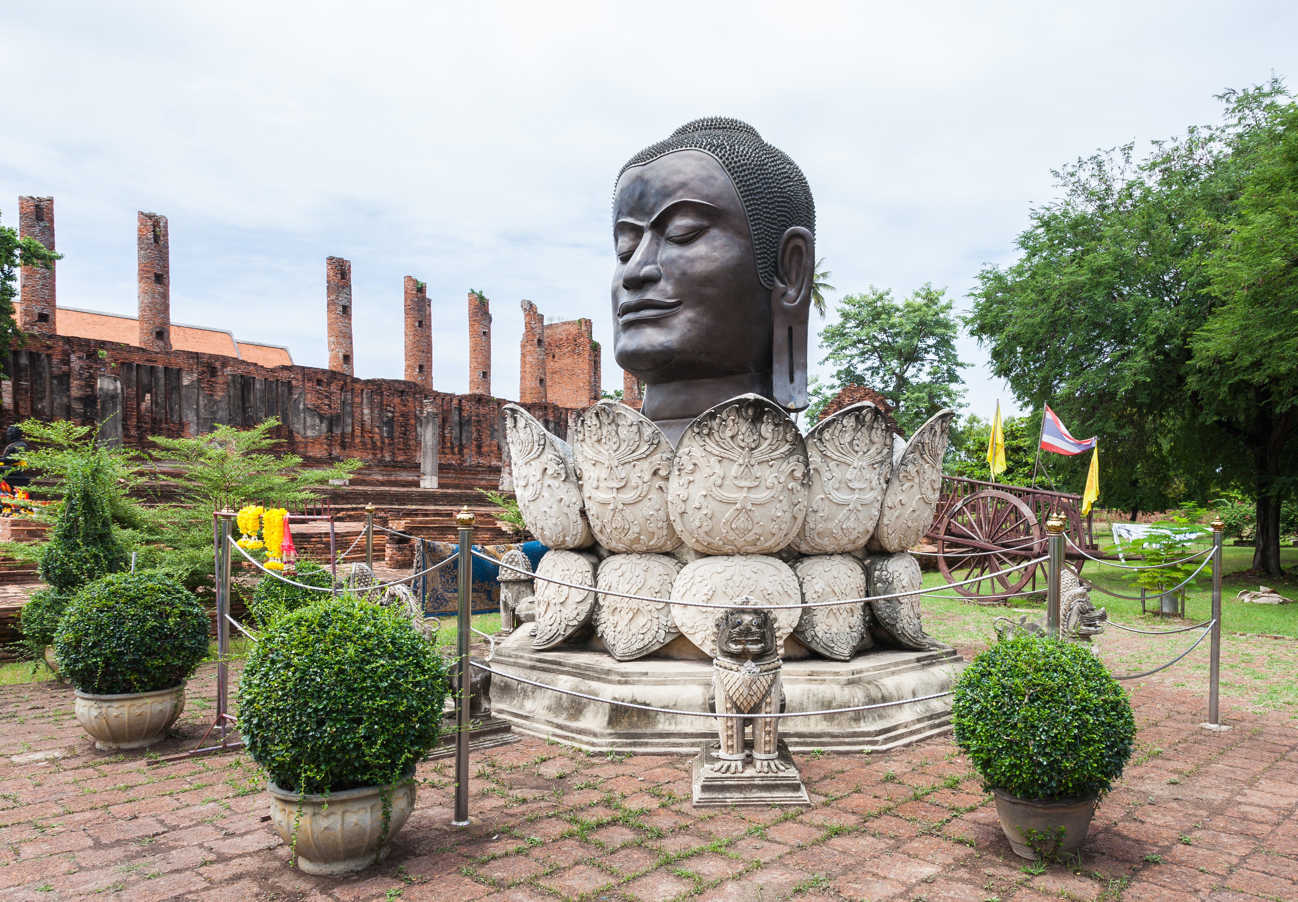 Thammikarat Temple, Ayutthaya, Thailand